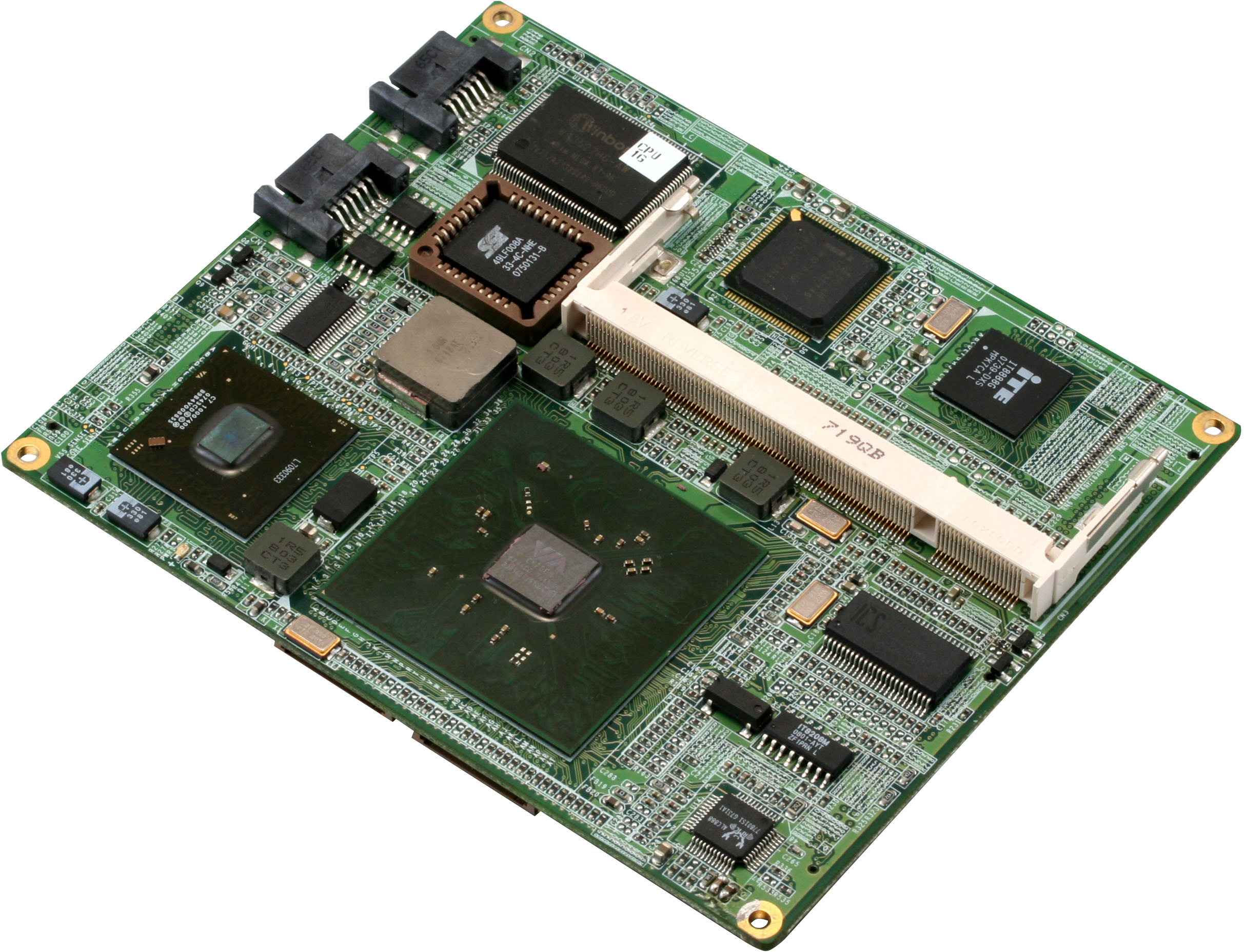 The latest ETX-CX700M board from AAEON Technology